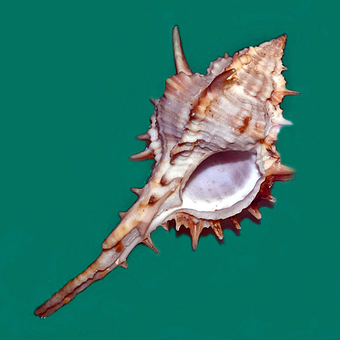 A shell of Vokesimurex kiiensis, on display at the Museo Civico Craveri di Scienze Naturali - Bra